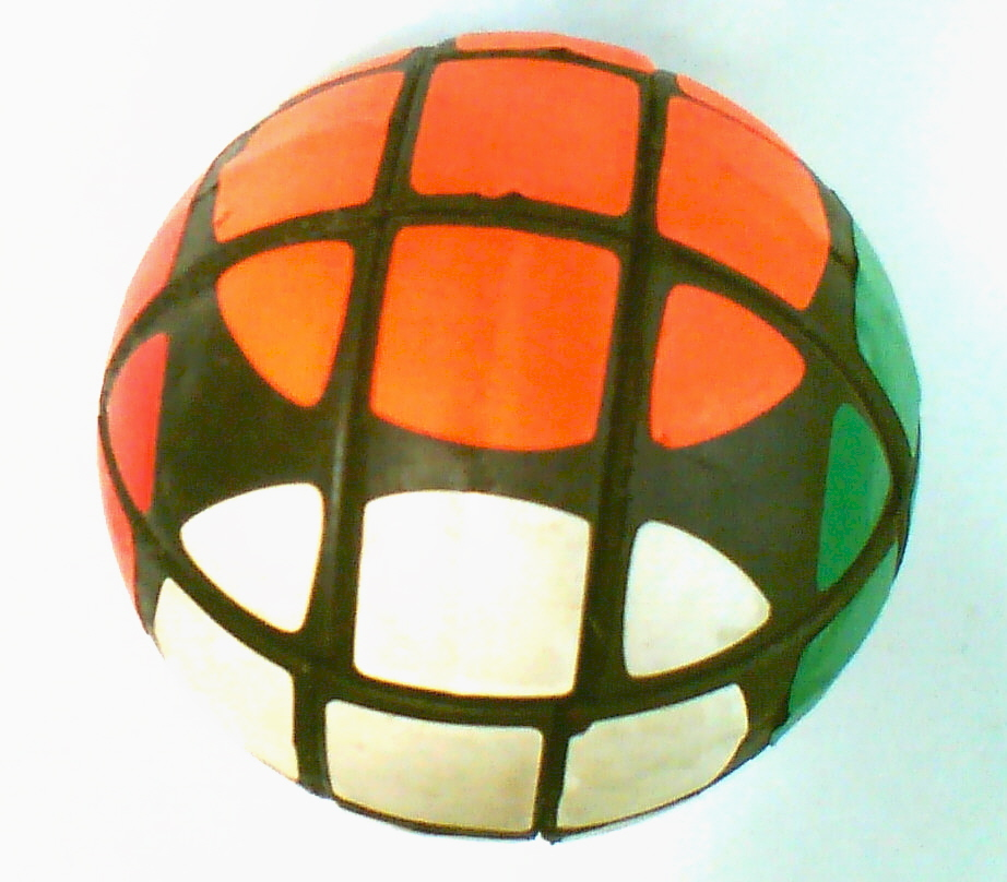 Spherical combination puzzle of the 3x3x3 Rubik type